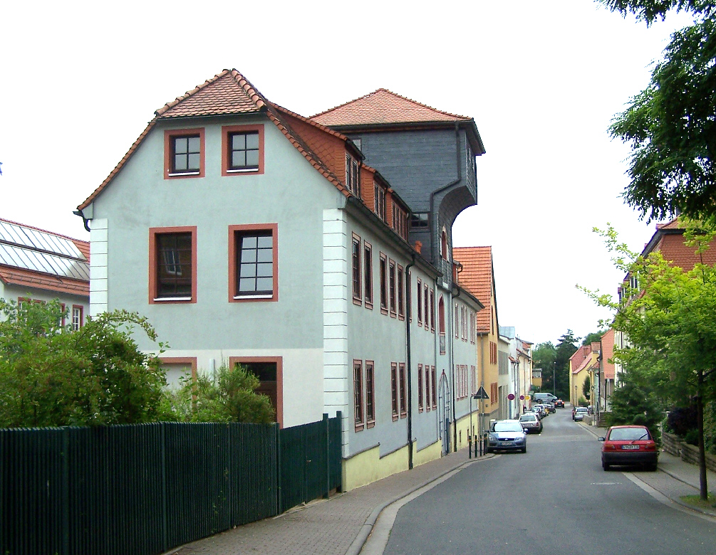 In Neudietendorf, Kirchstraße. A former manufacture building of the Herrnhuter Brüdergemeine.